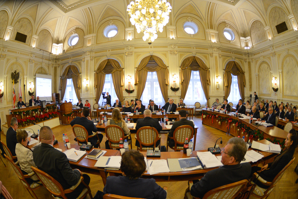 Session room in Town Hall, Bielsko-Biala, Poland, 2017